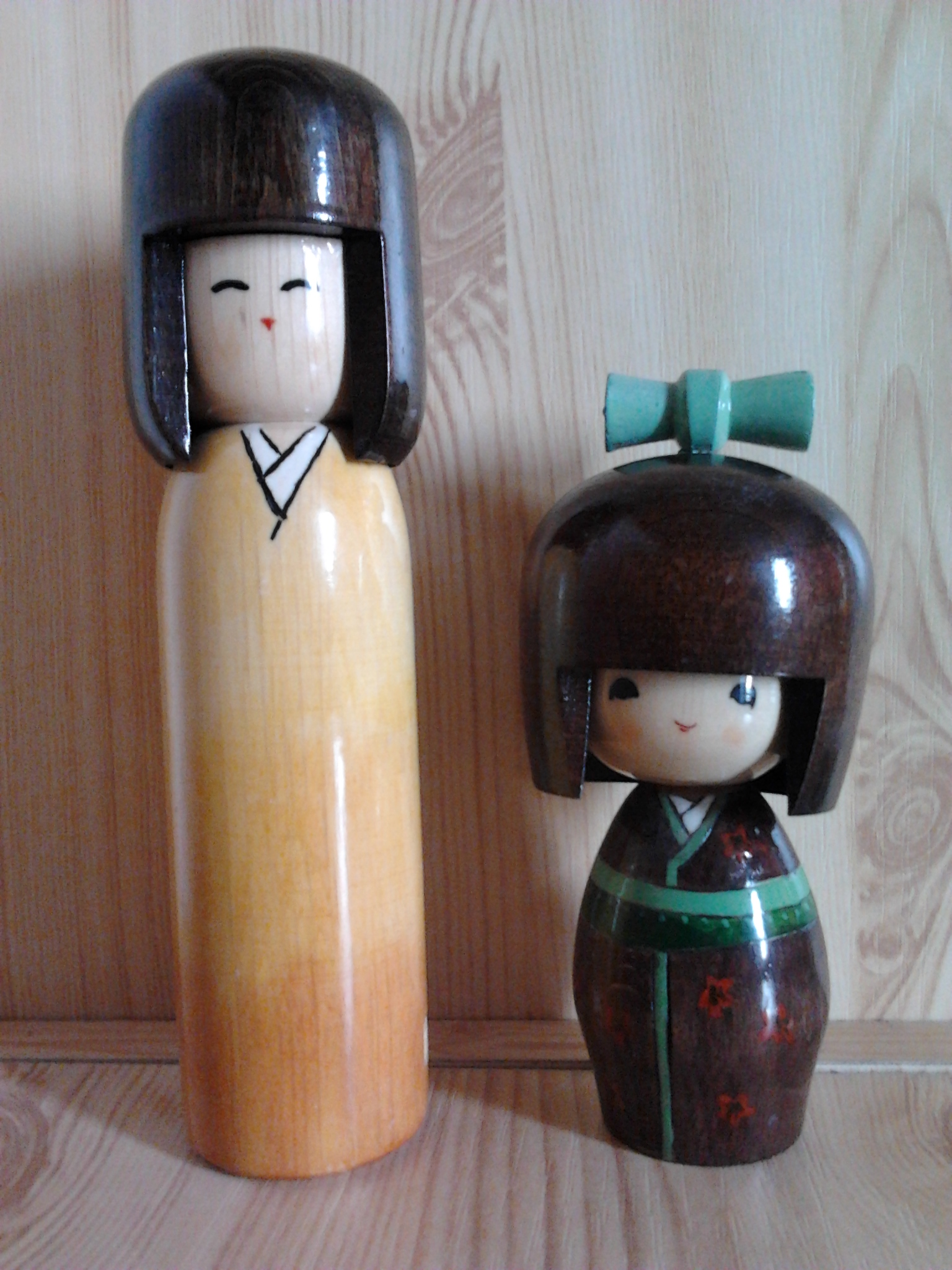 Two different creative kokeshi dolls.